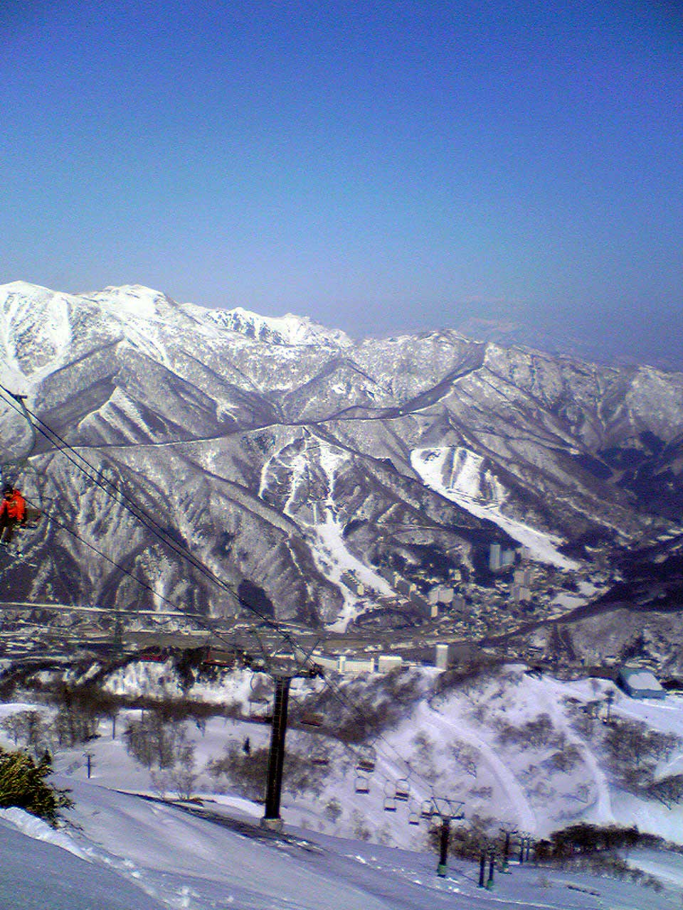 M't naeba top